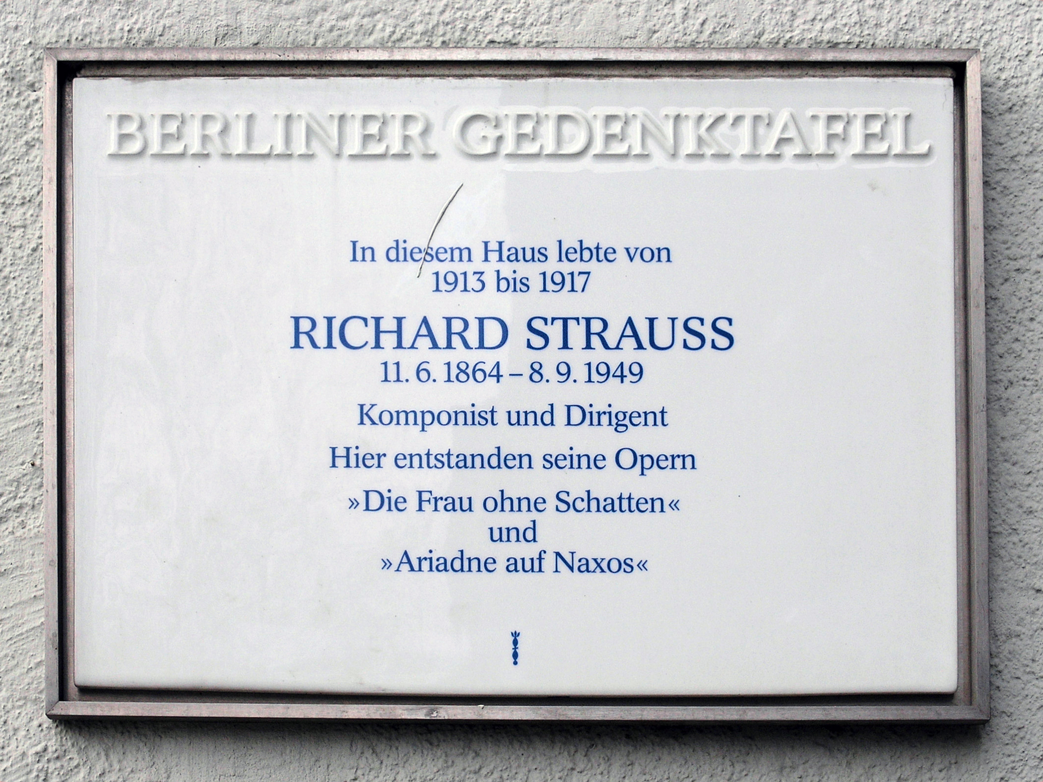 Berlin memorial plaque, Richard Strauss, Heerstraße 2, Berlin-Westend, Germany